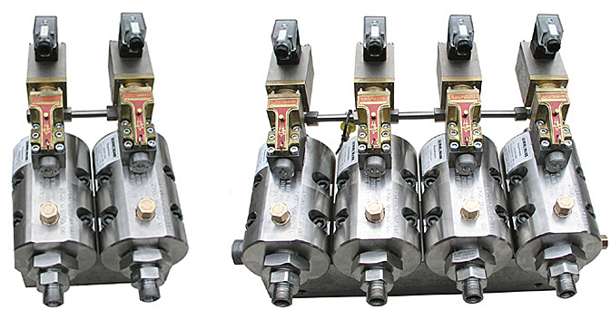 Solenoid valves open and close various blasting tools